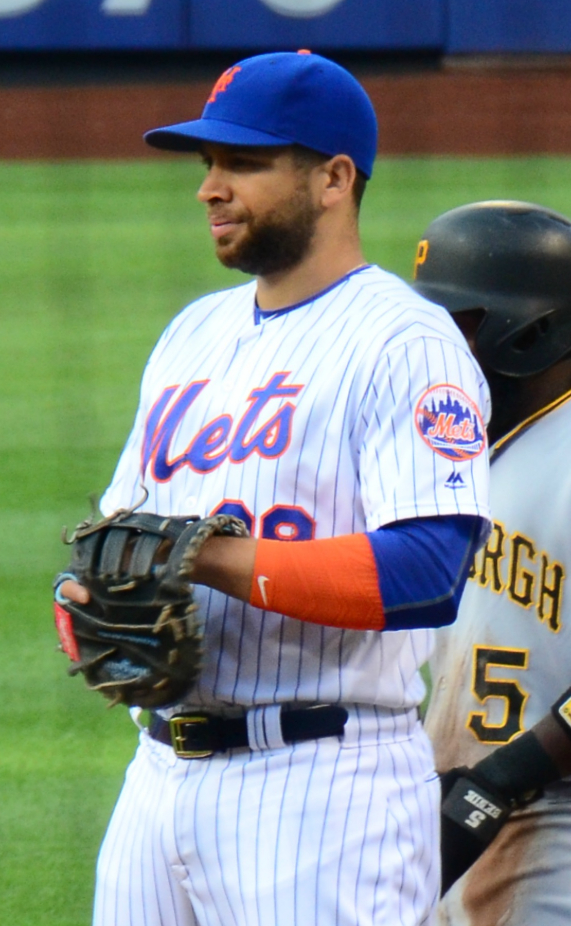 James Loney